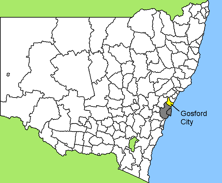 Map of New South Wales/Australia, LGA of the City of Gosford highlighted